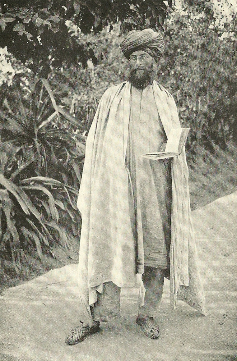 A photograph of Dr Pennell dressed as a sadhu or mendicant pilgrim